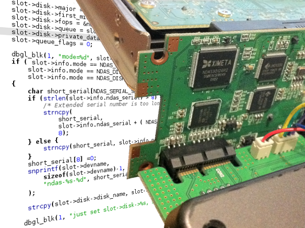 Here is a chunk of GPL code from the NDAS driver, next to one of the devices it connects to.